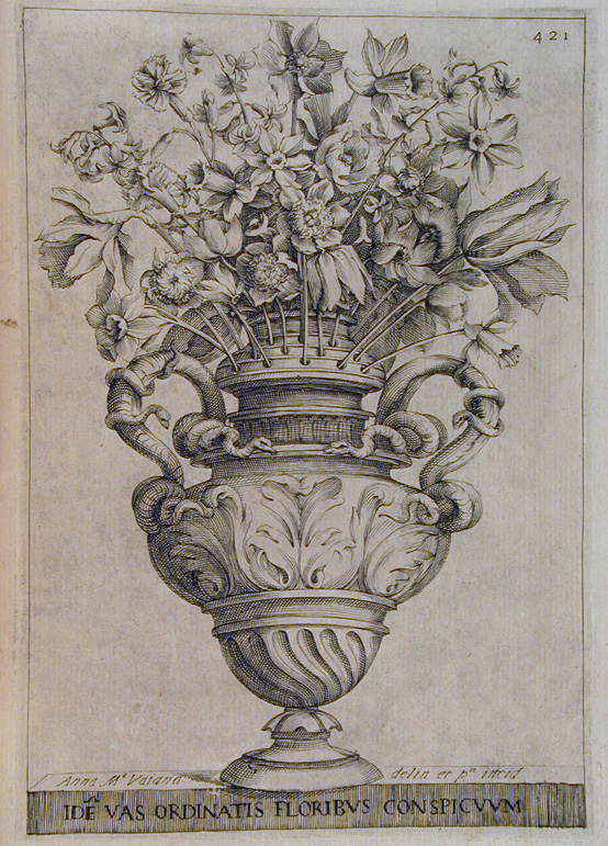 Illustration from: Giovanni Battista (or Baptista) Ferrari De Florum Cultura, ed. Facciotti: Rom, 1638. Copperplate engraving by Anna Maria Variana, possibly the first woman professional botanical illustrator, ca. 1630.